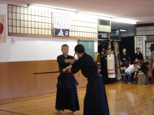 From Houston Budokan, Feb 2006